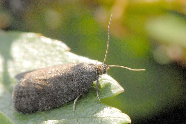 Dichrorampha sedatana from Commanster, Belgian High Ardennes .